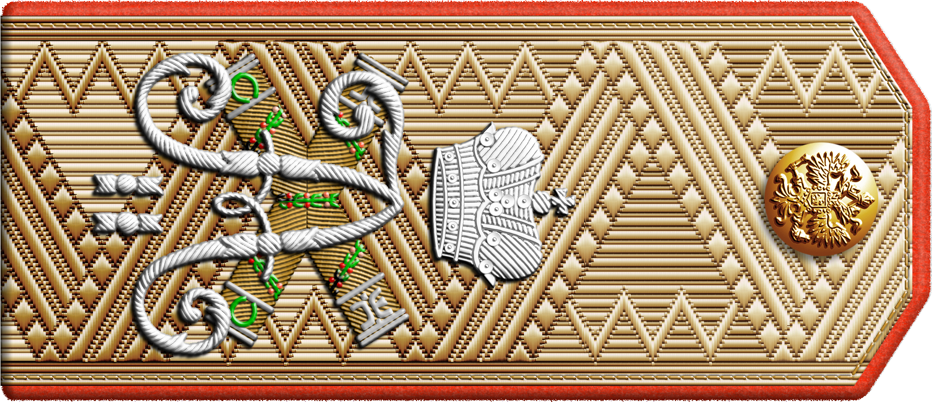 Rank insignia of the Imperial Russian Army, here Field marshal – shoulder board 1909-1917 for officers of infantry, cavalry, 1st and 2nd Guard-Infantry-Division (excepted chief squadron / company) and Guard-Cavalry-Regiment.